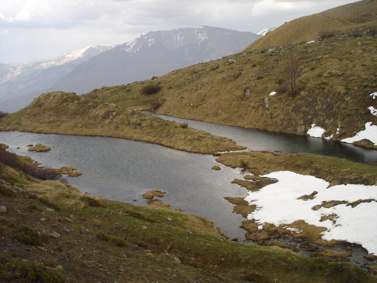 North Gashovo Lake on Deshat Mountain, Macedonia